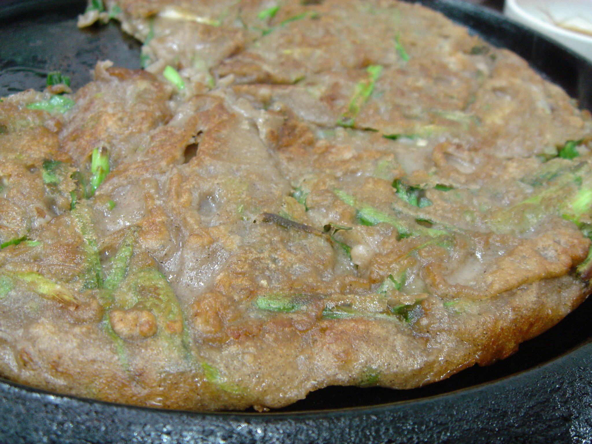 Memiljeon, Korean buckwheat pancake